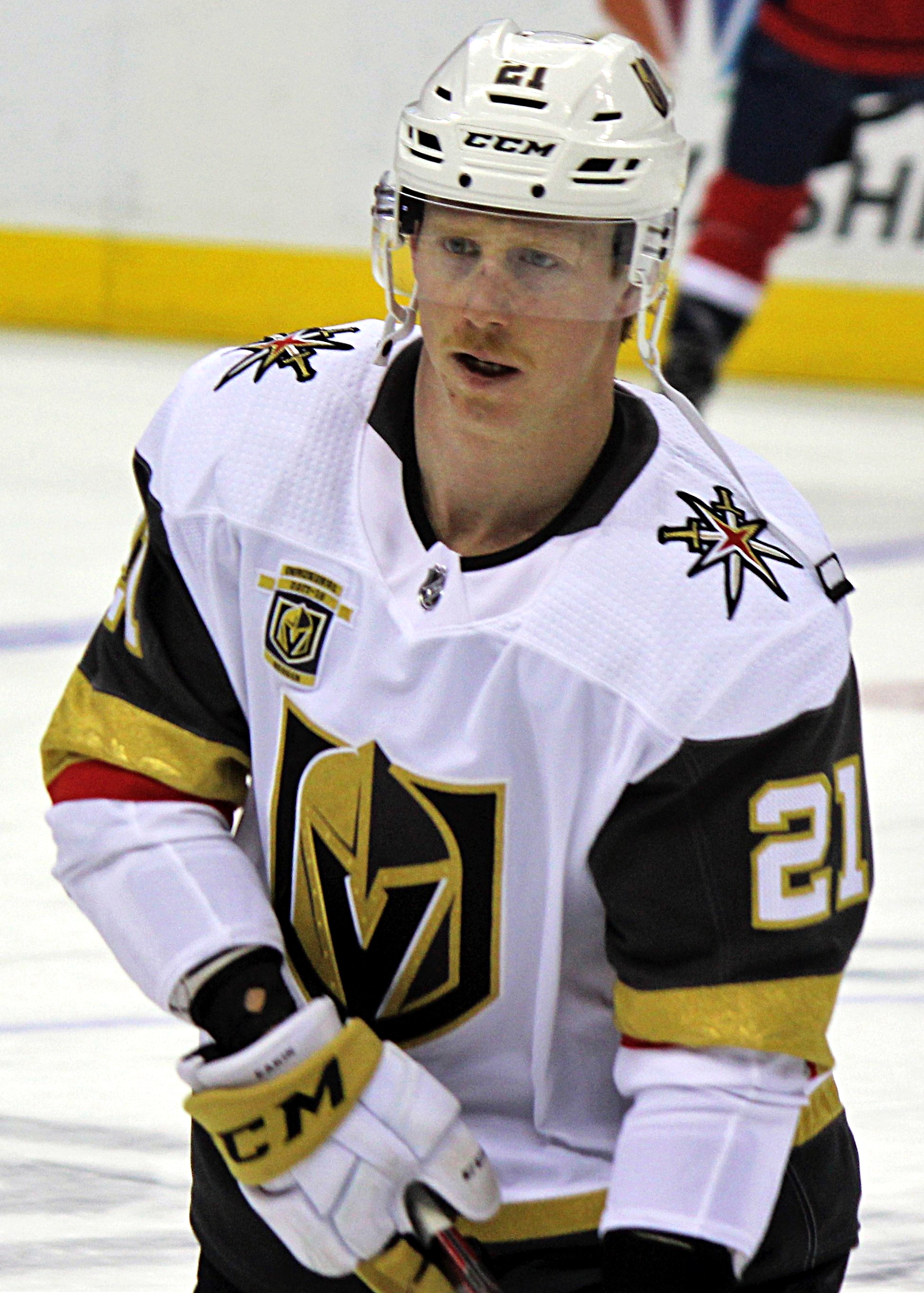 Vegas Golden Knights forward Cody Eakin during a game against the Washington Capitals, February 4, 2018, at Capital One Arena in Washington, D.C.